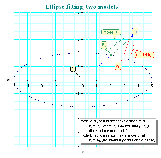 Show two different approaches to fit an ellipse to data